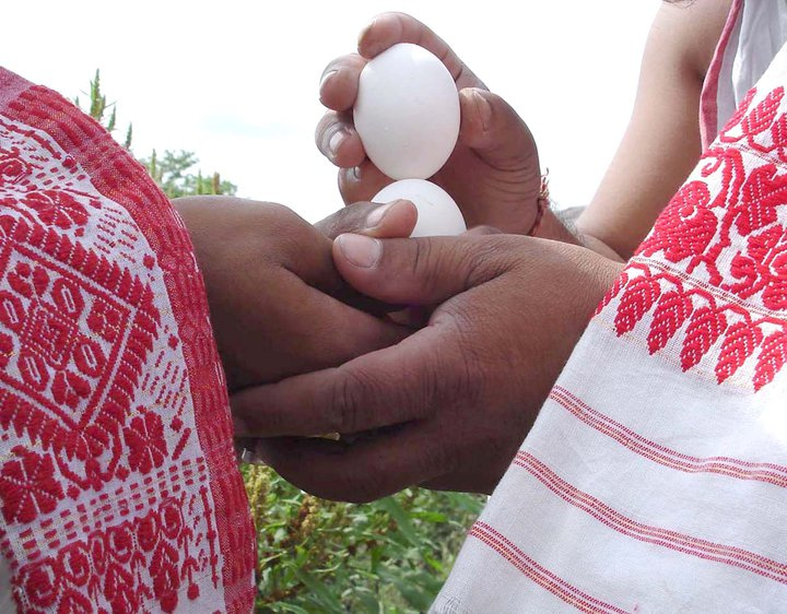 In Assam (a state of India in which the easternmost indigenous Indo-European language is spoken) the game is called Koni-juj (Koni = Egg; Juj = Fight). It is held every year on the day of Goru Bihu (the cattle day) of Rongali Bihu, which falls in mid-April and on the day of Bhogali Bihu, in January.